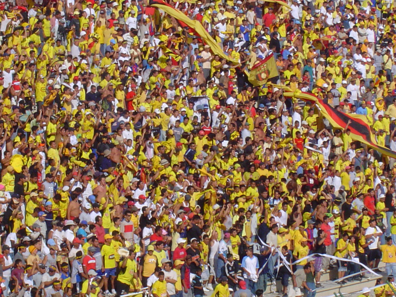 Barcelona is the most popular team in Ecuador.